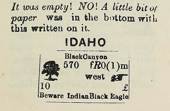 Extract of Black Canyon published by Lloyd Osbourne in Davos.